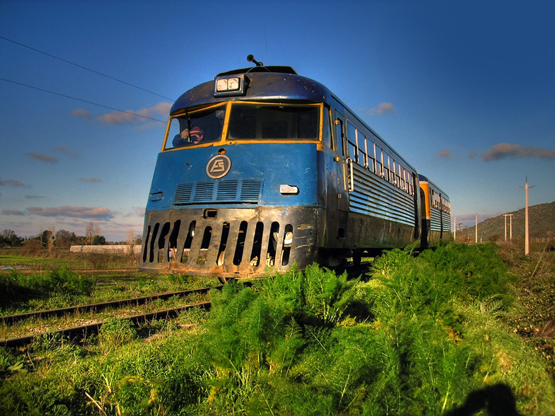 Ferrostaal railbus in the Talca - Constitución branch of Talca Province, Maule Region, Chile